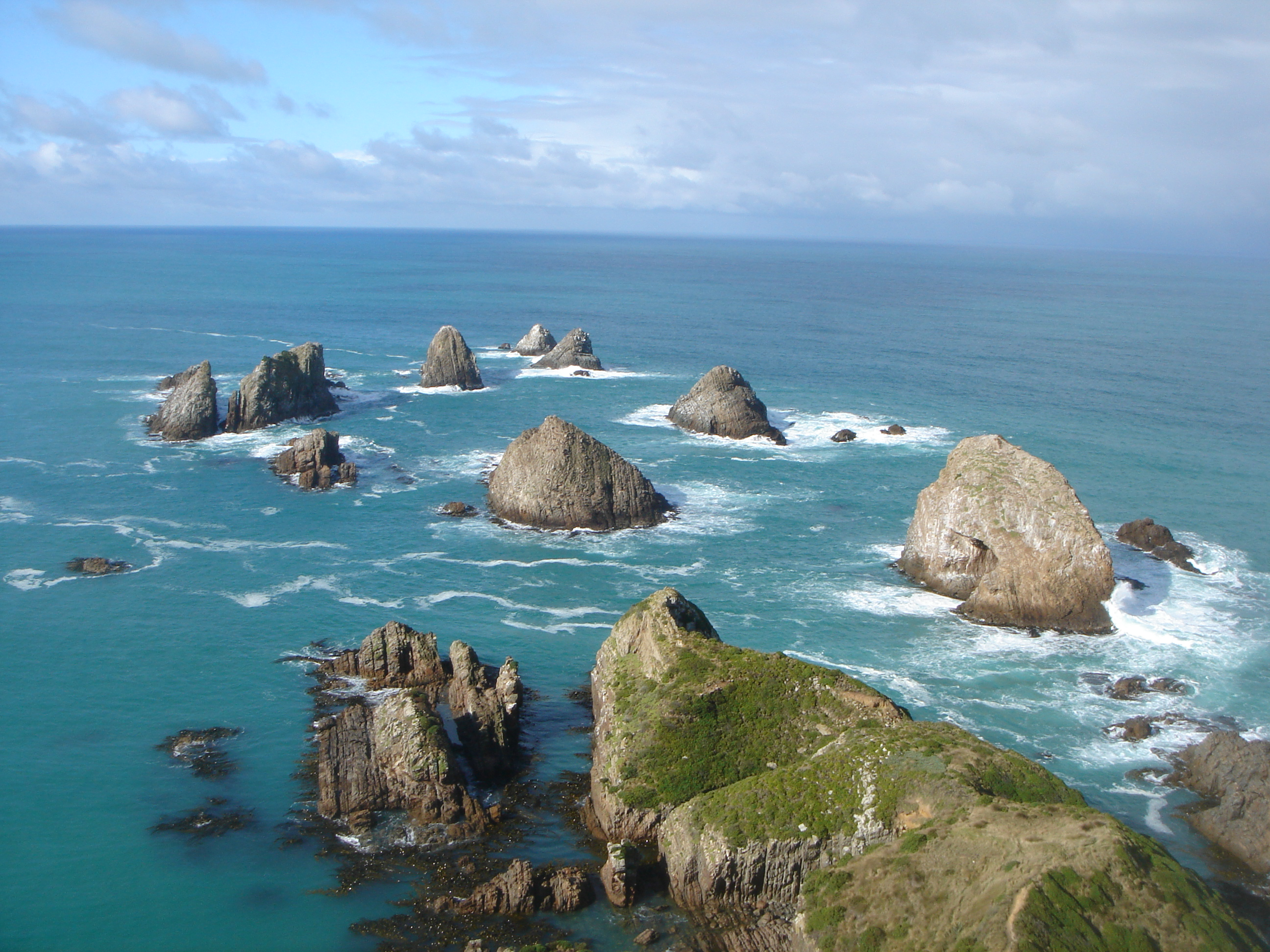 A picture of the Nuggets on a sunny day.